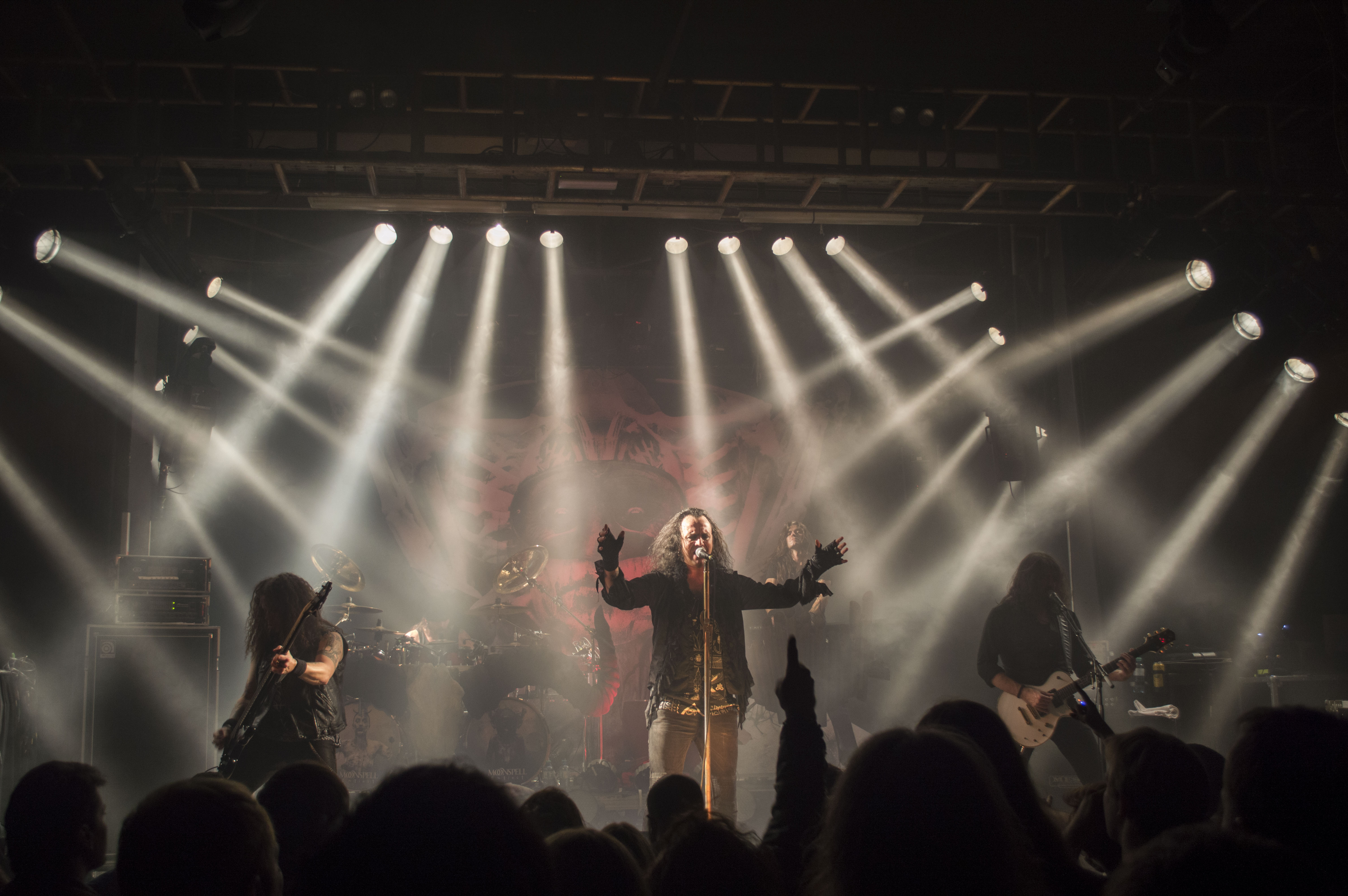 Moonspell at Vienna, Szene, 26th October 2015.